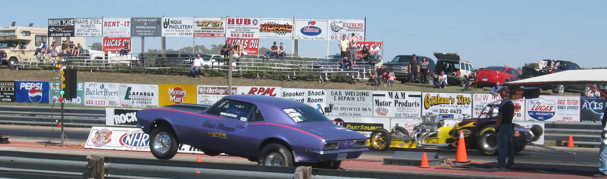 Camaro racer just off the start at SIR, drag strip 13km outside of Saskatoon, SK. Wheelie indicates increased weight transfer, which aids in traction for maximum acceleration. Note Beauchemin altered in right lane. Shot 23 Aug 2008